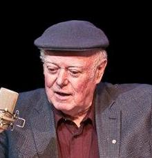 Canadian writer Alistair MacLeod reading at Cape Breton University in 2012.